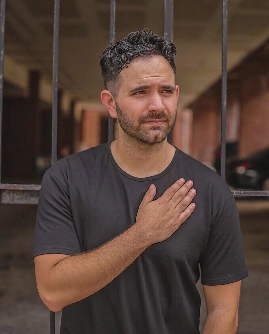 MC Bravado poses for an upcoming show in Baltimore in 2019.